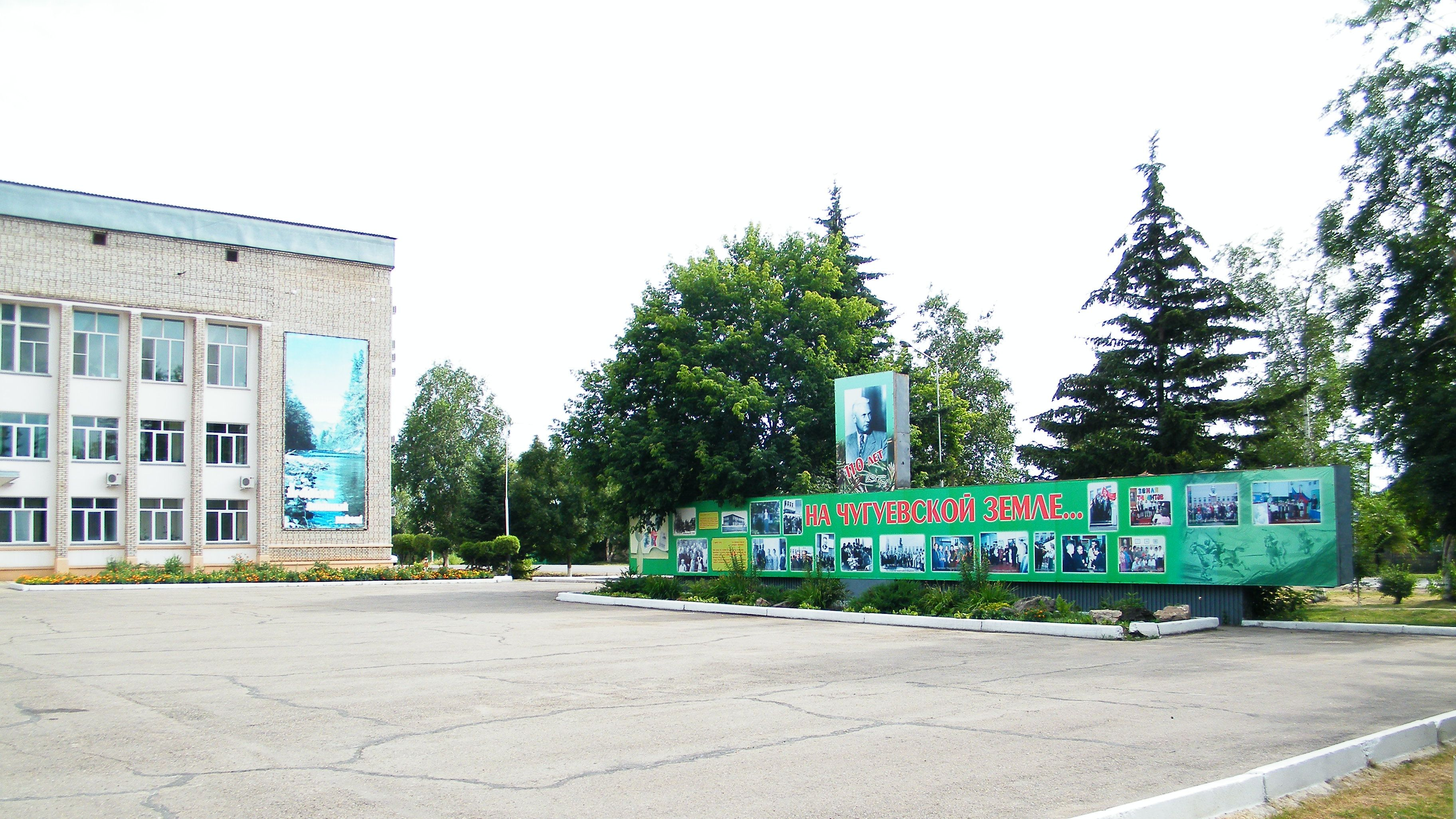 Chuguevka